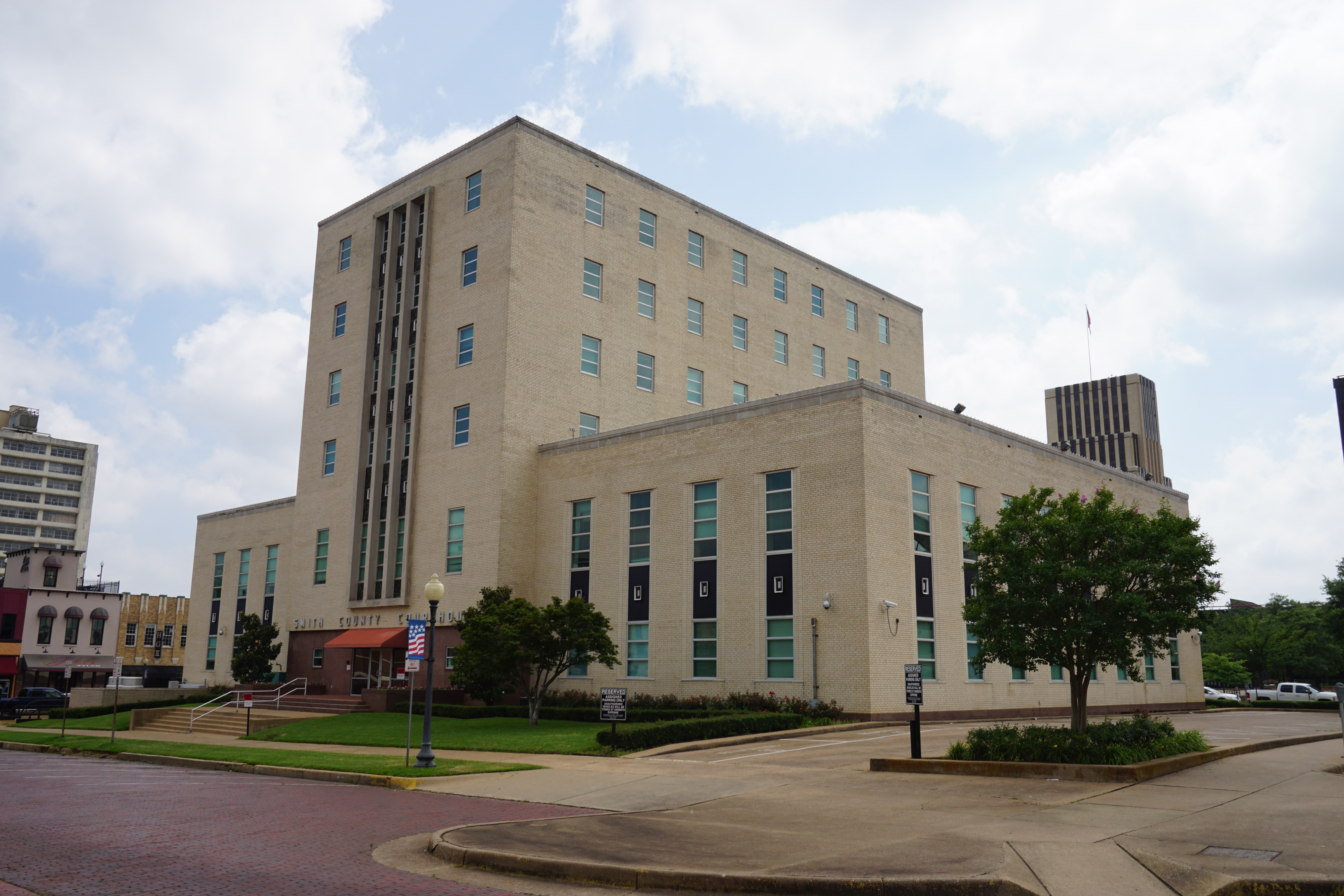 The Smith County Courthouse in Tyler, Texas (United States).